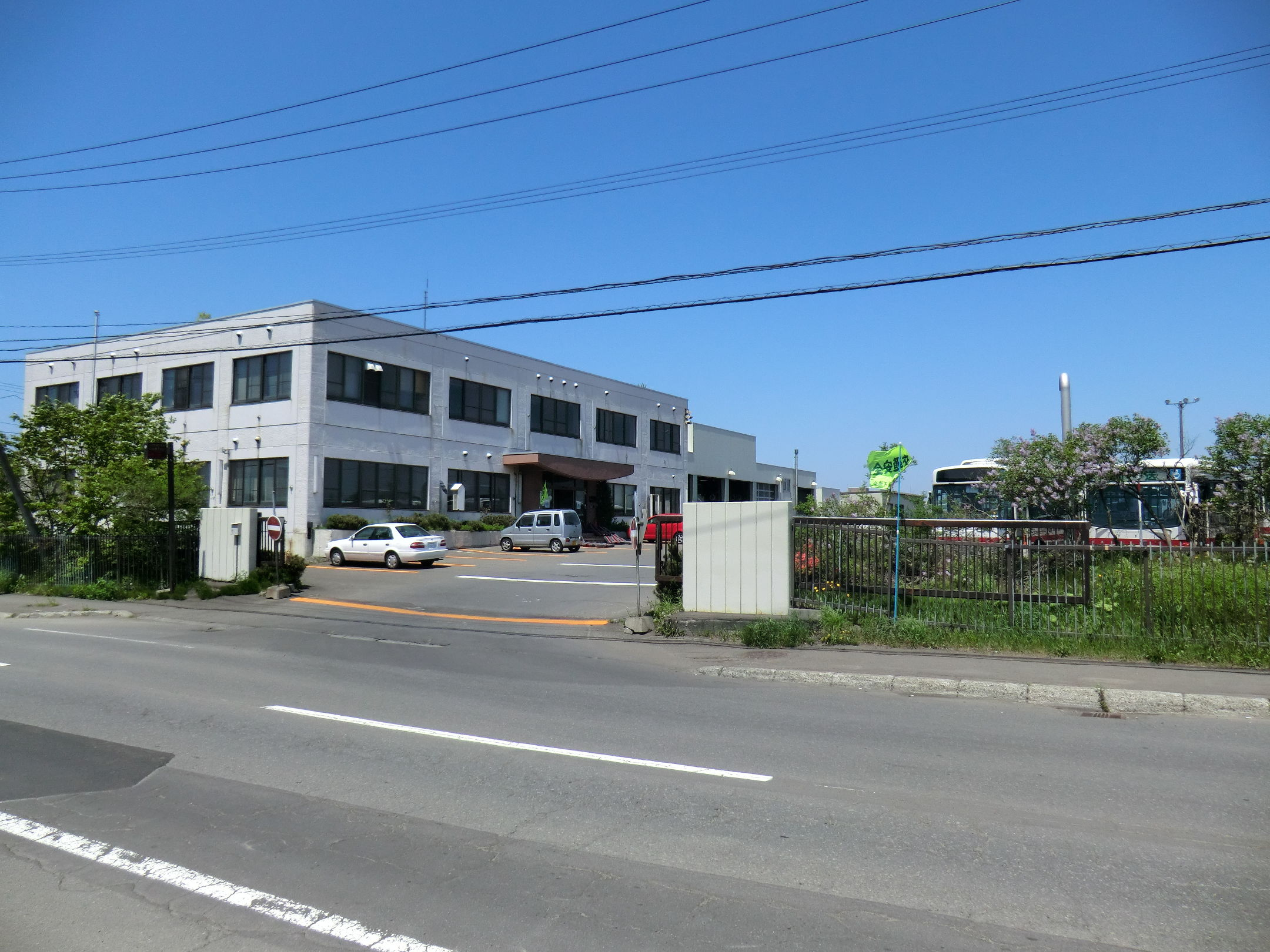 Hokkaido Chuo Bus Shiroishi Office, Sapporo, Hokkaido, Japan